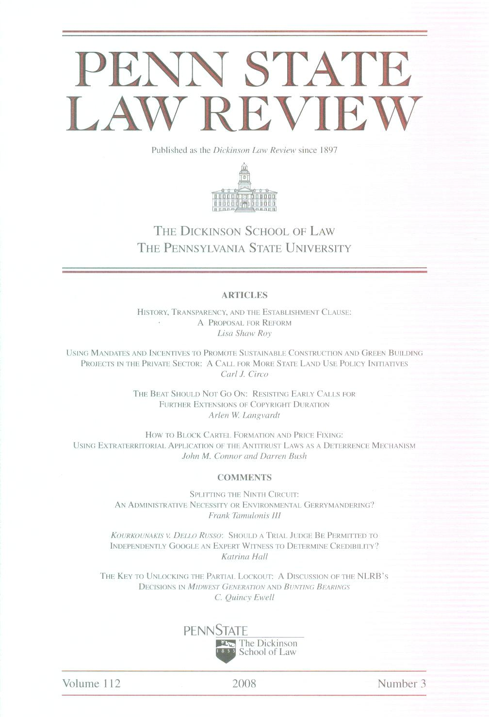 Cover of the Penn State Law Review